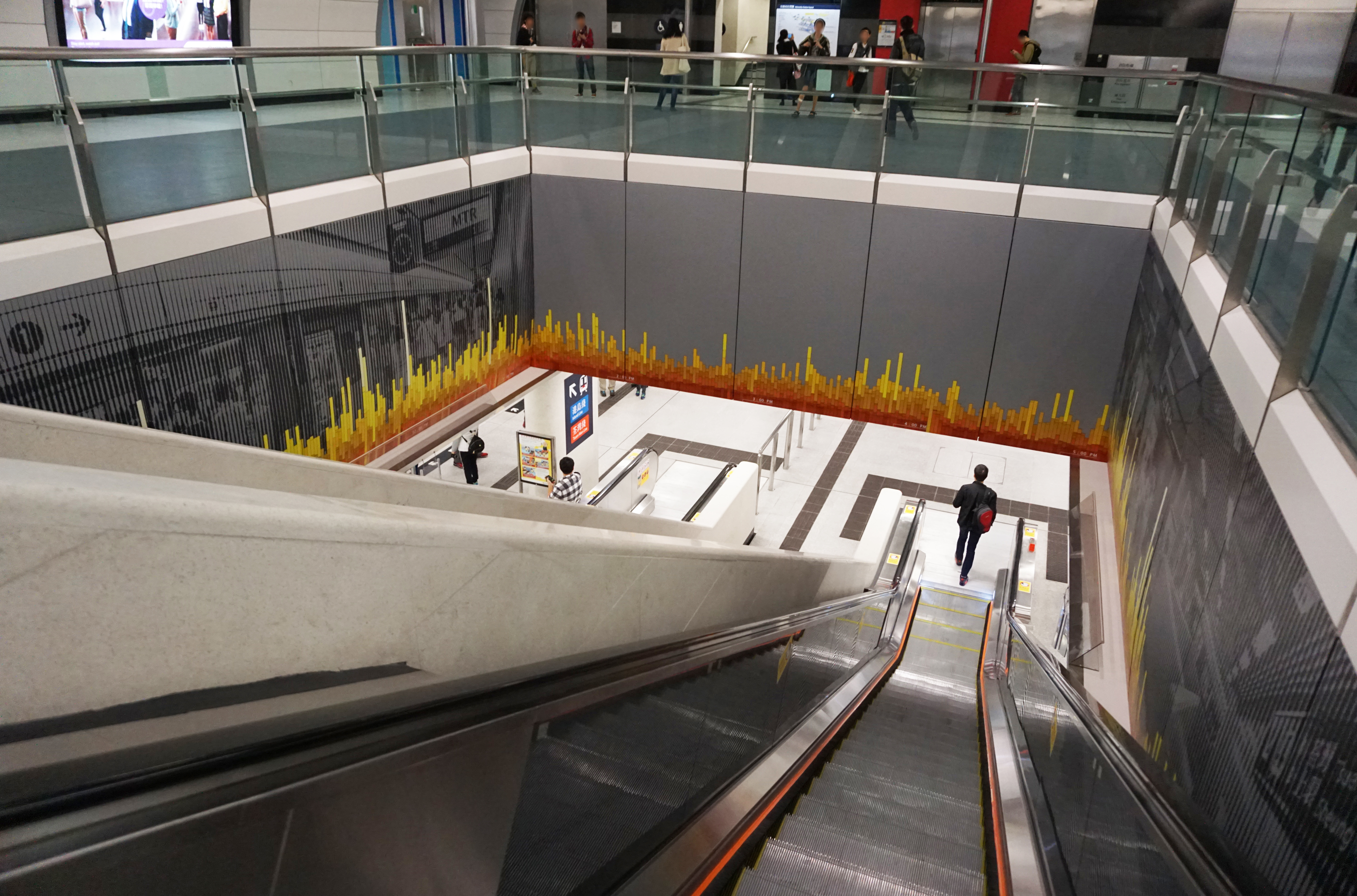 Admiralty Station in Central and Western District, Hong Kong.